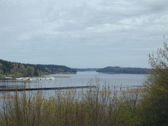 Oakland Bay (part of the Puget Sound), looking north from the juncture with the Hammersley Inlet.